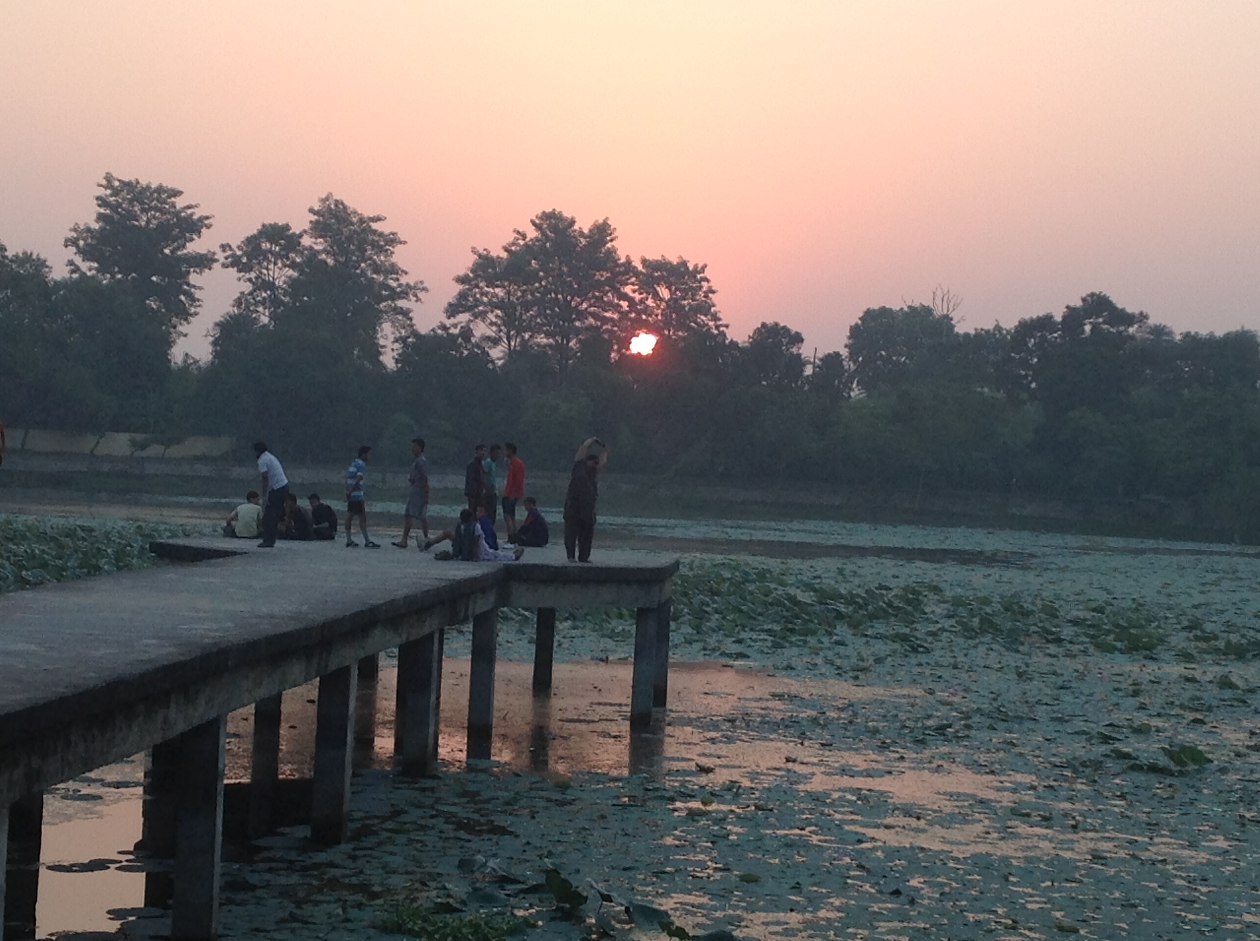 It is the picture of the lotus covered Dronasagar lake early in the morning.